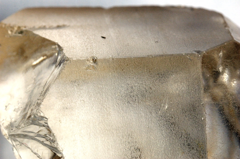 Rock crystal